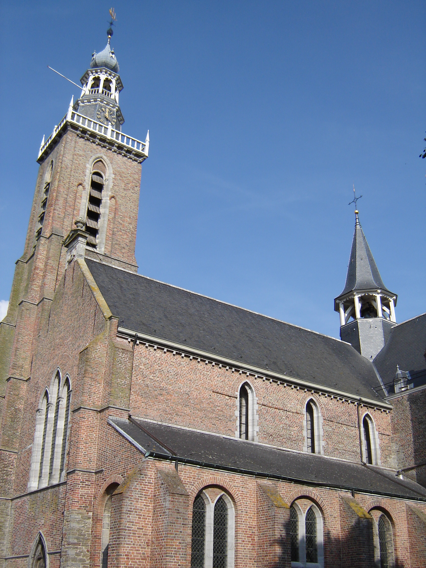 Church of Saint Bavo in Aardenburg. Aardenburg, Sluis, Zeeland, Netherlands